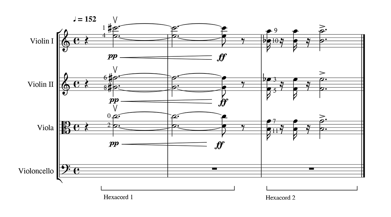 Hexachords appearing at the beginning of Robert Gerhard's String Quartet n. 1